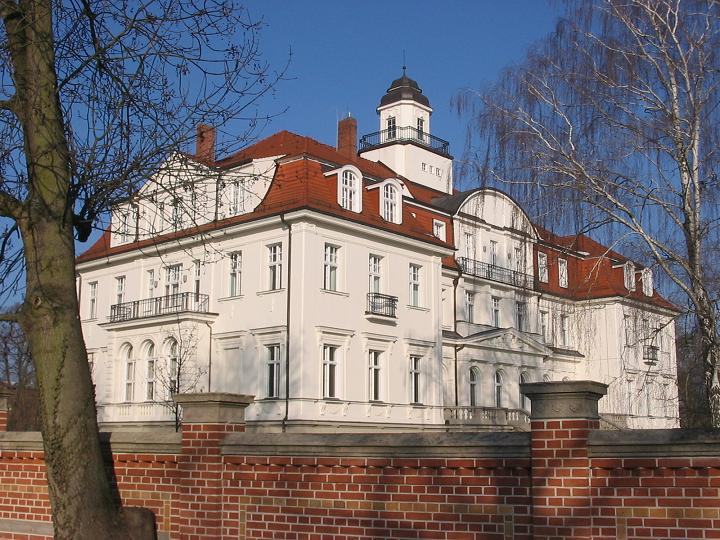 Genshagen Mansion, near Ludwigsfelde, Brandenburg, Germany